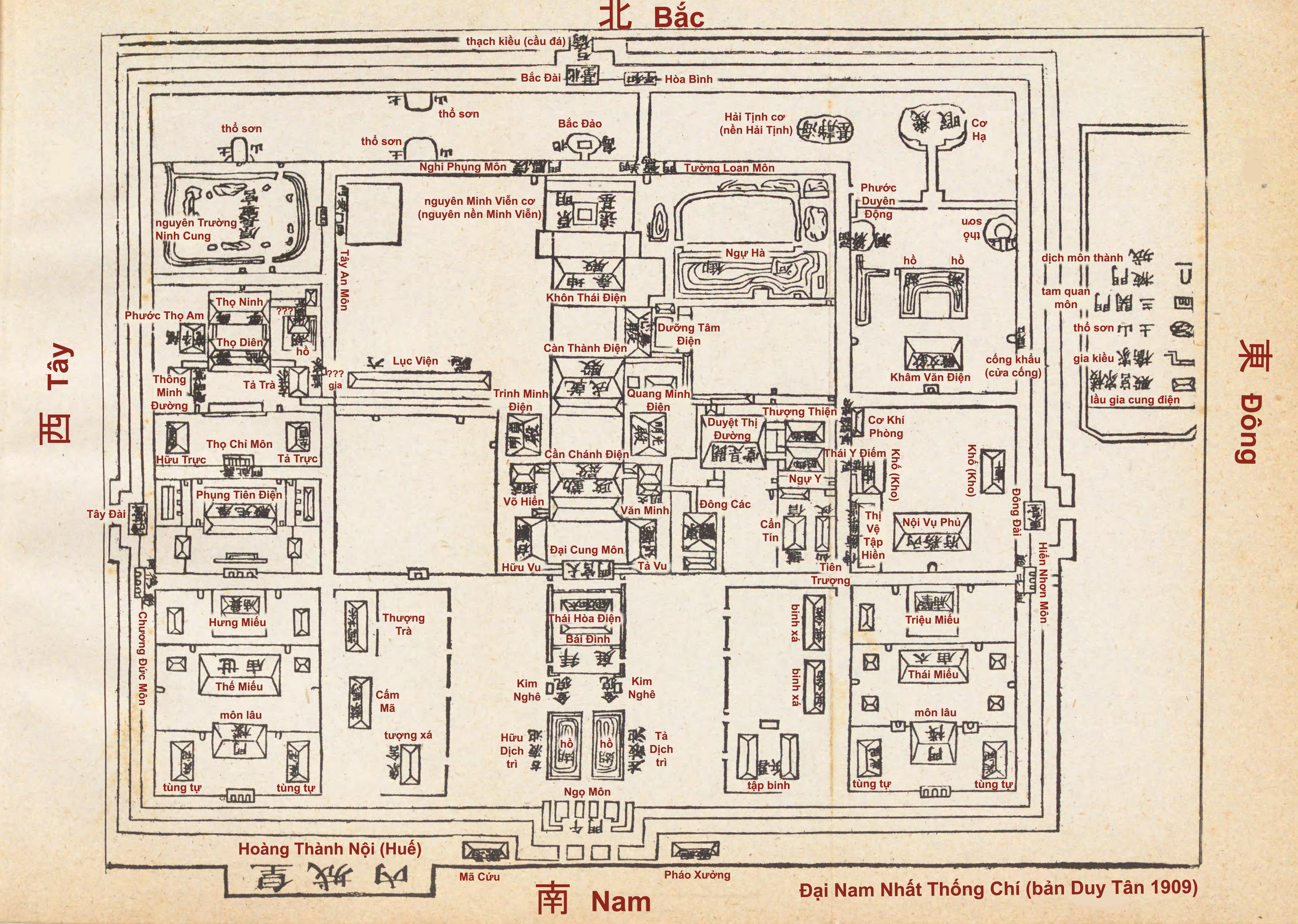 Map of Imperial City of Hue circa 1909. This map is printed in Đại Nam Nhất Thống Chí the second version (the 3rd year of Duy Tan reign (1909) version). This is the North-up orientation map (a.k.a. "the normal map"). The North-up orientation is the orientation used in most of the contemporary maps, including mapping apps such as Google Maps.